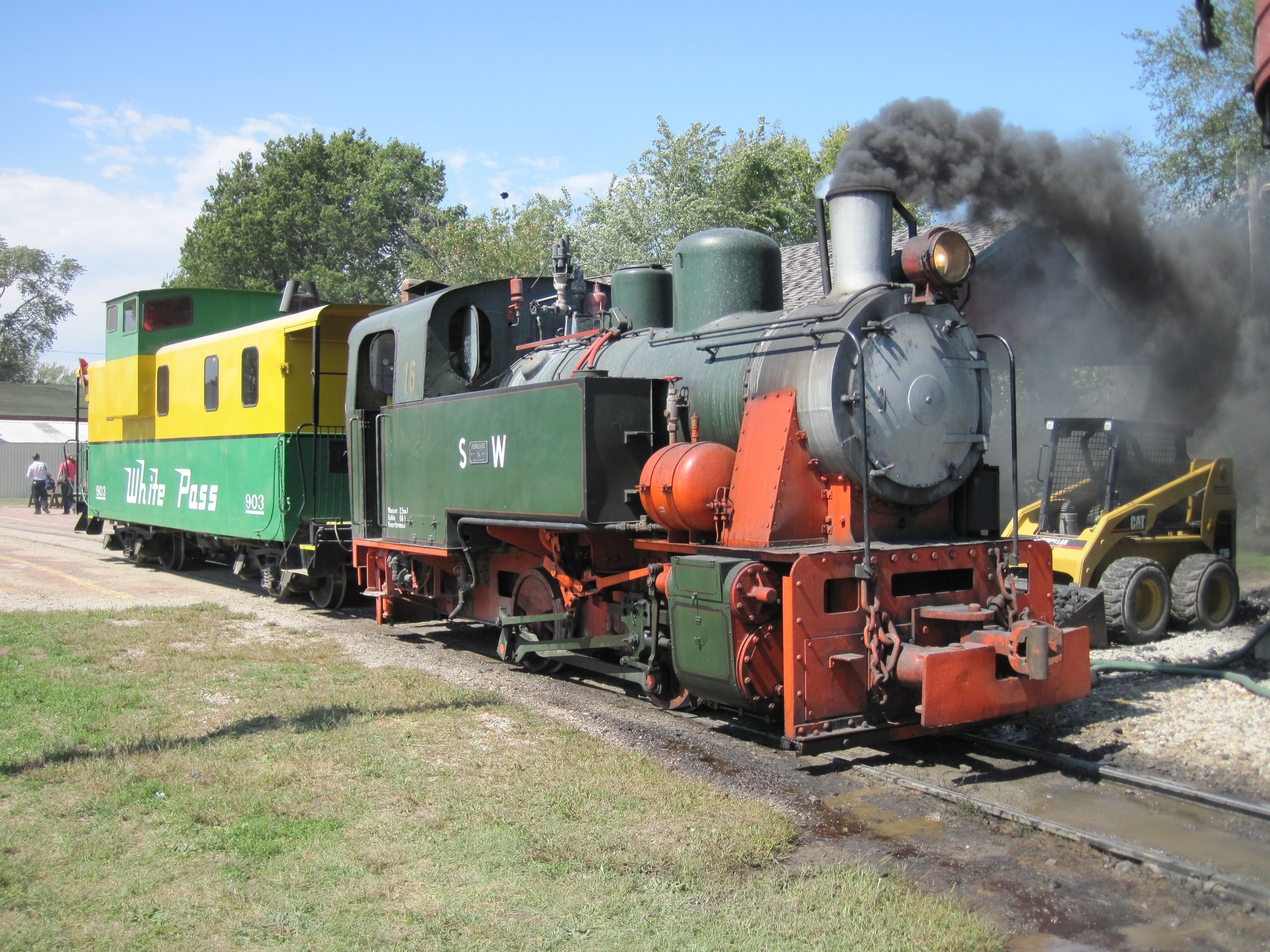 Henschel & Son 1951 steam engine, owned by the Midwest Central Railroad (